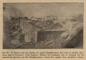 An image from a news paper, which pictured the Primary School of Karavostamo, under construction